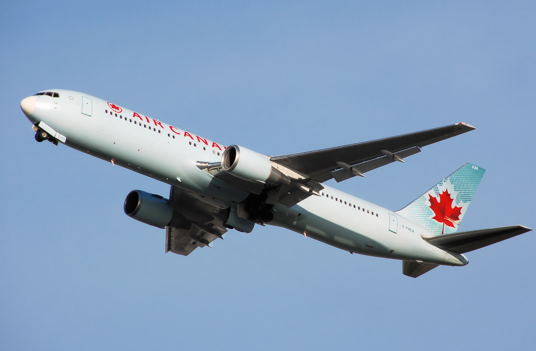 Air Canada Boeing 767-300 (registration C-FXCA) landing at London Heathrow Airport, England.